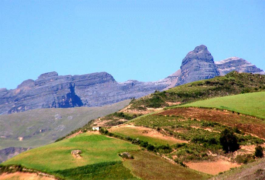 I, the author of this work, publish it under the following license (see below)